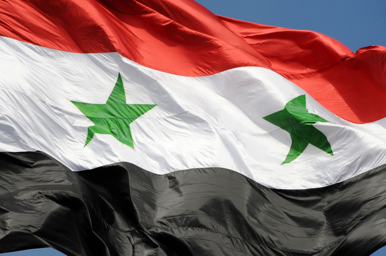 The flag of Syrian Arab Republic / Damascus, Syria